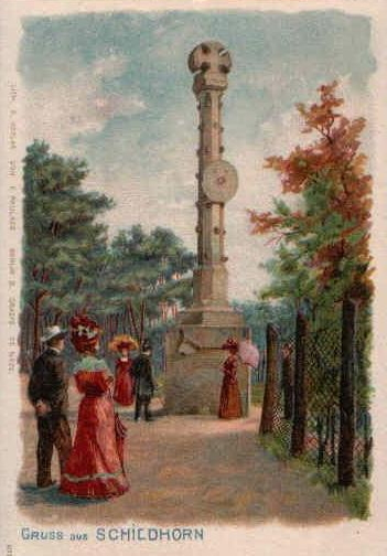 Picture postcard from ca 1900 with the monument in Schildhorn, commemorating to a legend of the slavic Fürst (prince, ruler) Jacza de Copnic (Jaxa von Köpenick). The monument was created in 1845 by the sculptor Friedrich August Stüler acted on a suggestion by Frederick William IV of Prussia. Schildhorn (german for: shieldhorn) is a headland in the river Havel, situated in the protected area Grunewald in the homonymous quarter Grunewald of Berlins borough Charlottenburg-Wilmersdorf, Germany.